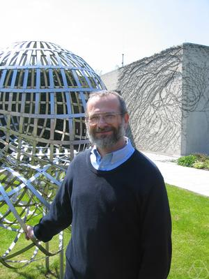 Przytycki, Jozef H. Occasion:Invariants in Low-Dimensional Topology Location: Oberwolfach Author: Schmid, Katrin (photos provided by Schmid, Katrin) Source: Oberwolfach Photo Collection Year: 2008 Photo ID: 10654